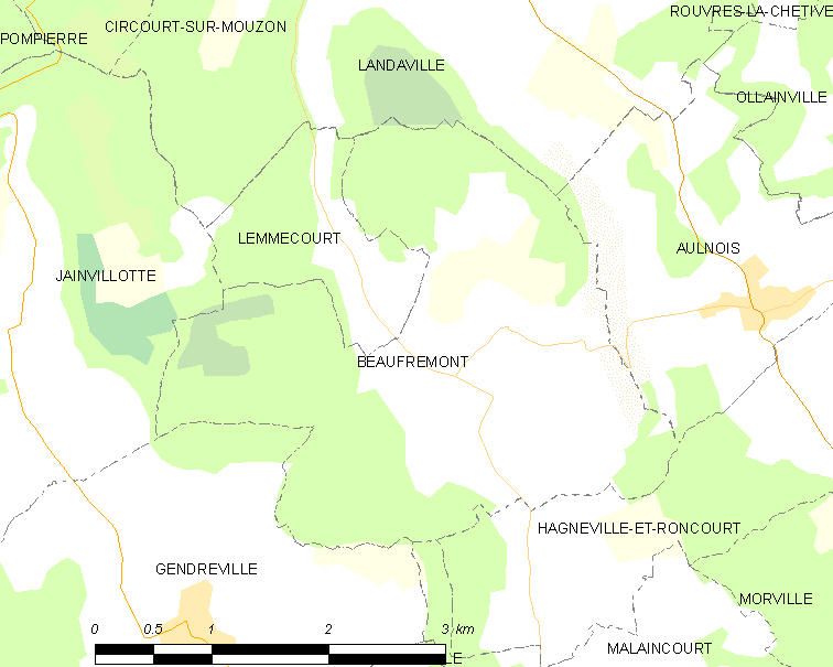 Map of French municipality Beaufremont